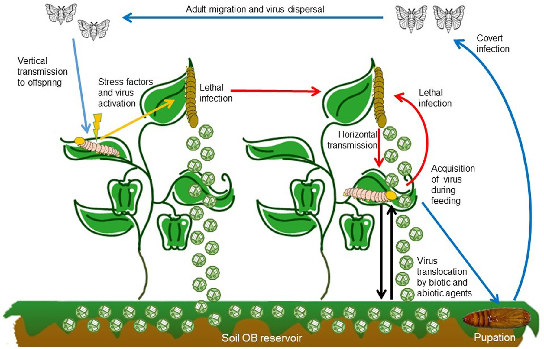 Baculovirus transmission routes, mode of infection and dispersal pathways in the environment. After larvae ingest OBs while feeding on contaminated foliage a portion of the infected individuals develop lethal disease and release OBs onto the host plant where they can be transmitted to a susceptible host (red arrow). OBs on foliage are also washed by rainfall into the soil, from which they can be transported back to plants by biotic and abiotic factors (black arrows). Alternatively, insects that consume OBs but survive may continue to develop, pupate and emerge as covertly infected adults (blue arrows). These adults can disperse before laying eggs and passing the infection to their offspring. Vertical transmission can be sustain over several generations until some elicitor or stress factor triggers (orange arrow) the covert infection into lethal disease which returns to the horizontal transmission cycle (red arrows).